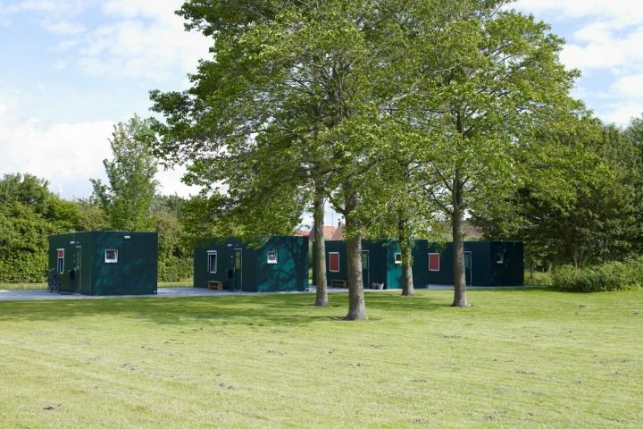 obytne buňky